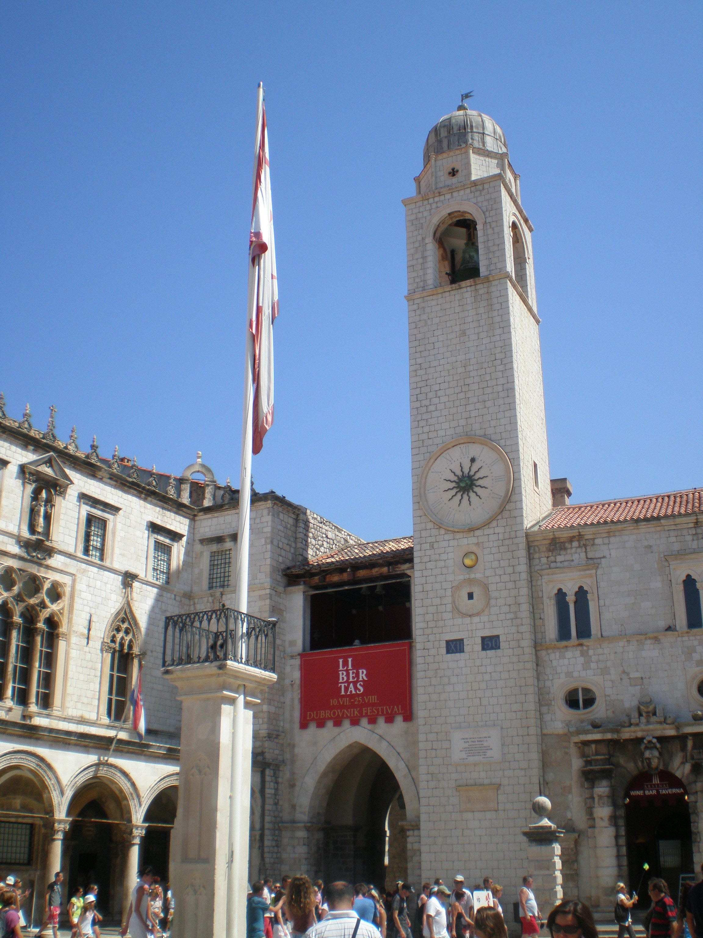 Libertas flags, Dubrovnik